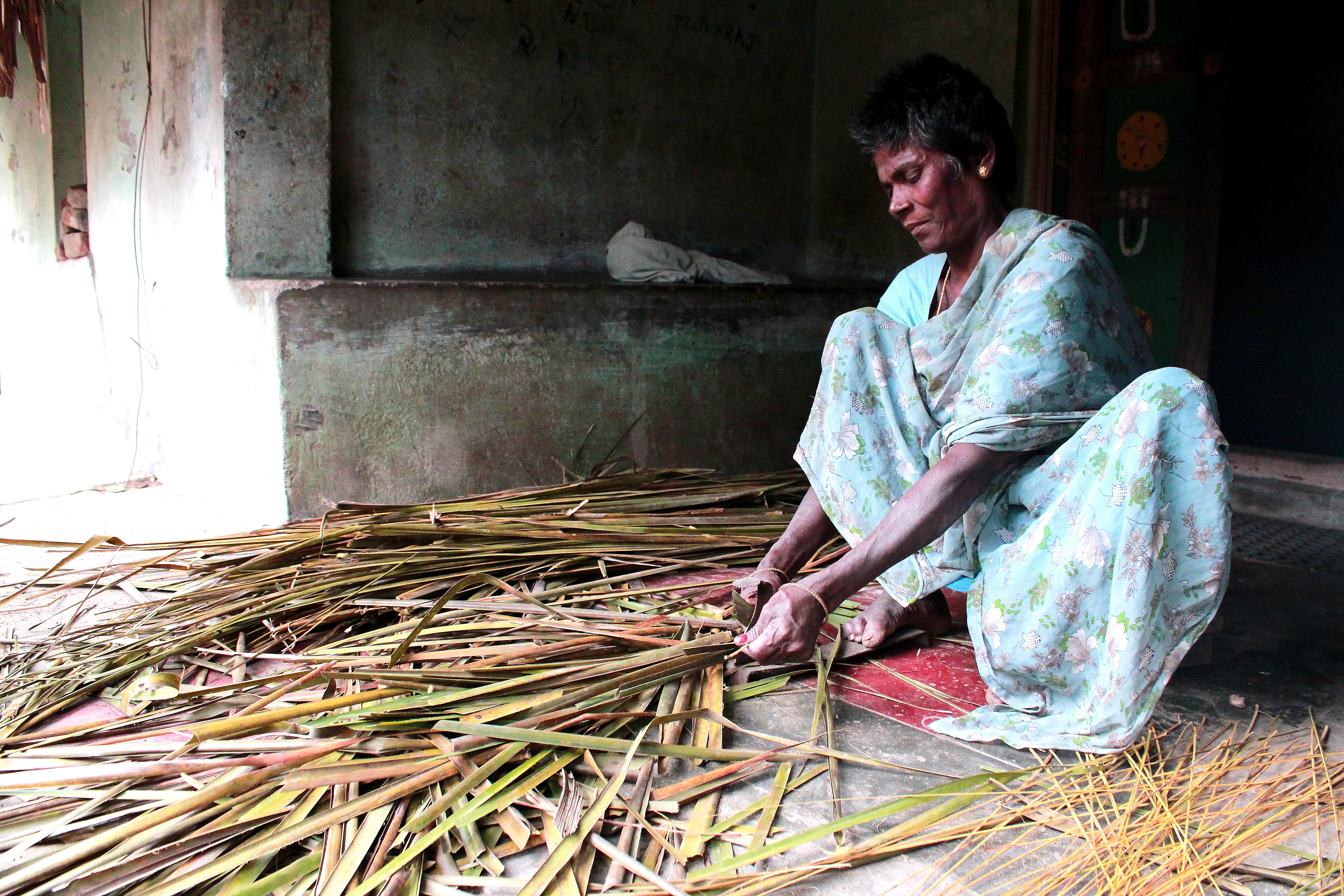 Olai pinnum oru grammathu pen